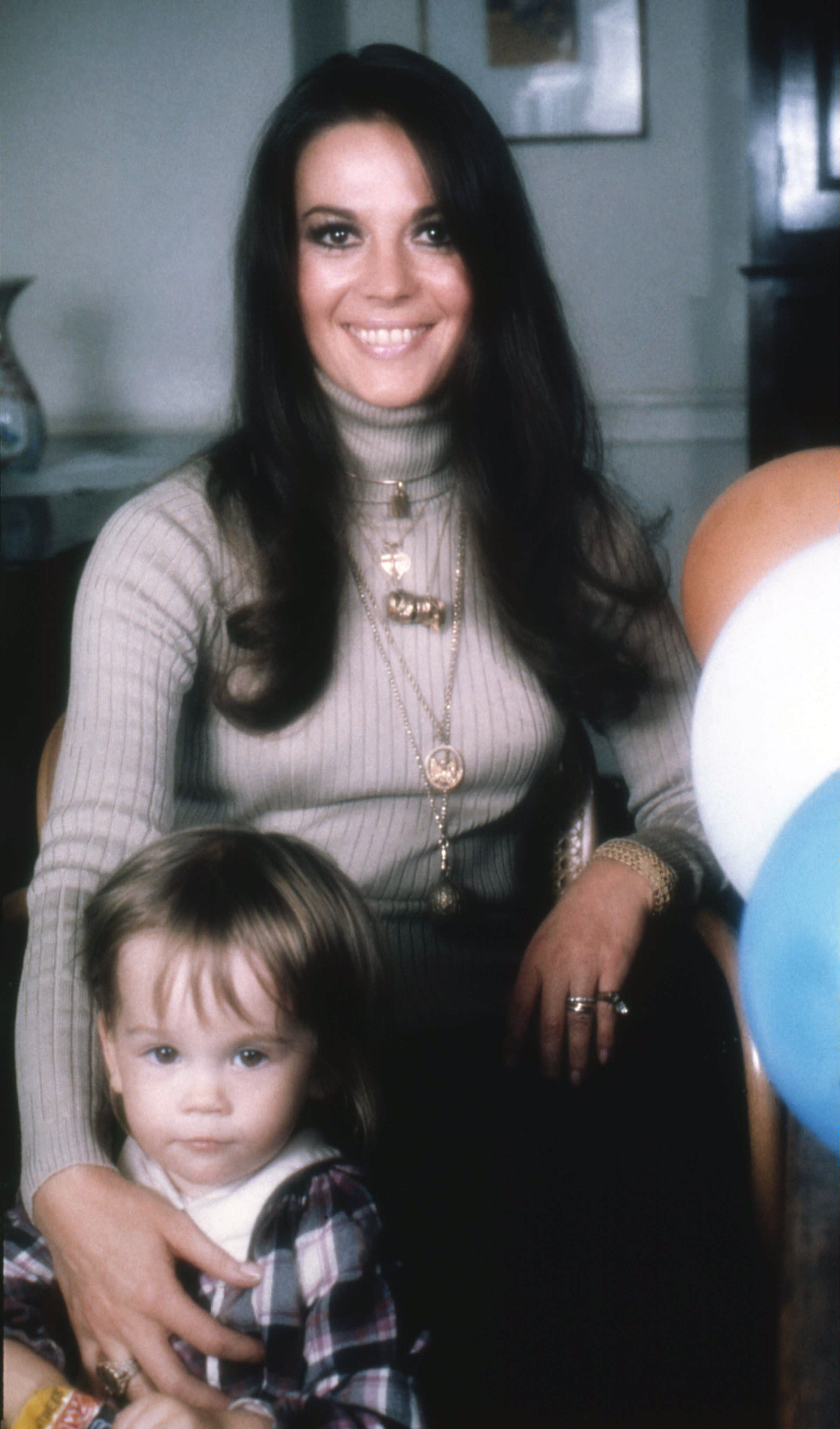 Natalie Wood with daughter